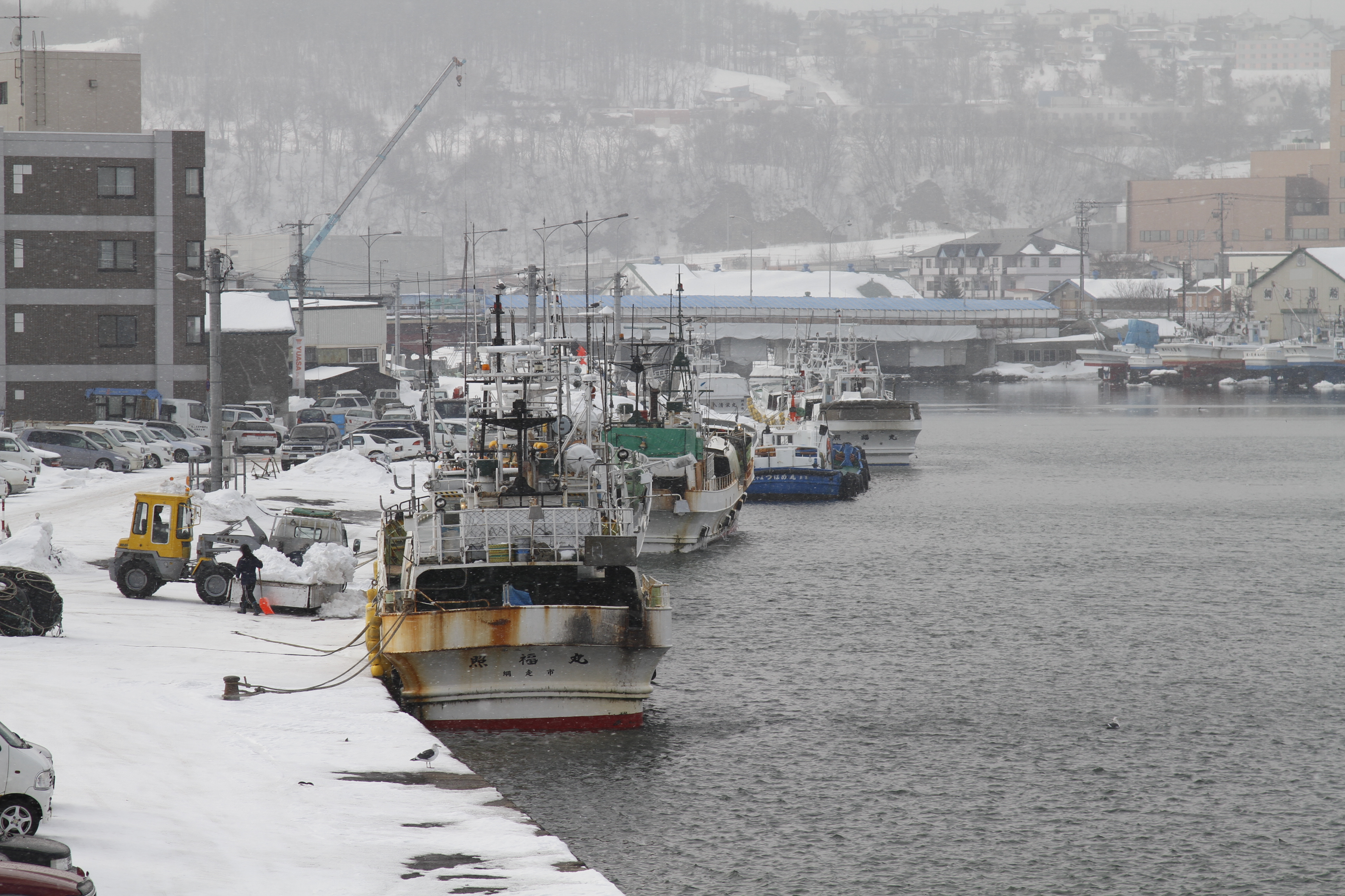 Abashiri River near its mouth, as viewed upstream from Minami 2-jō Higashi 3-chōme, Abashiri, Japan. cf. the map and the satellite image. Canon EOS 7D